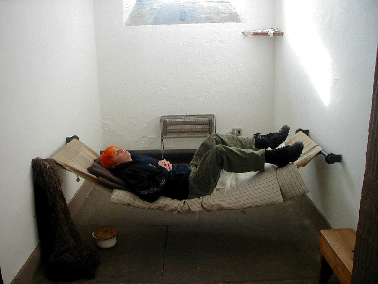 Interior of Inverary Jail Cell